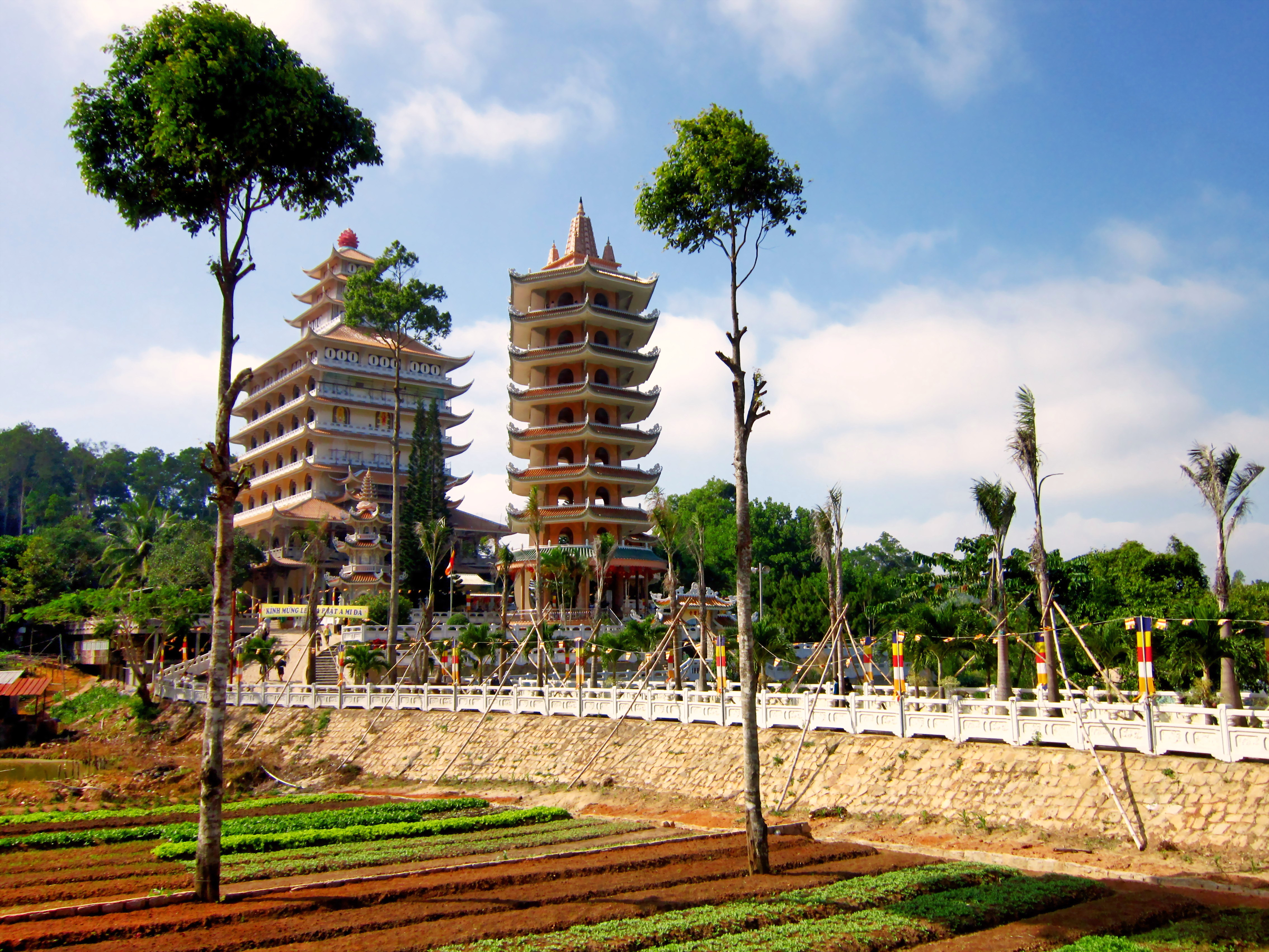 Chùa Vạn Linh trên đỉnh núi Cấm, thuộc huyện Tịnh Biên, An Giang, Việt Nam.